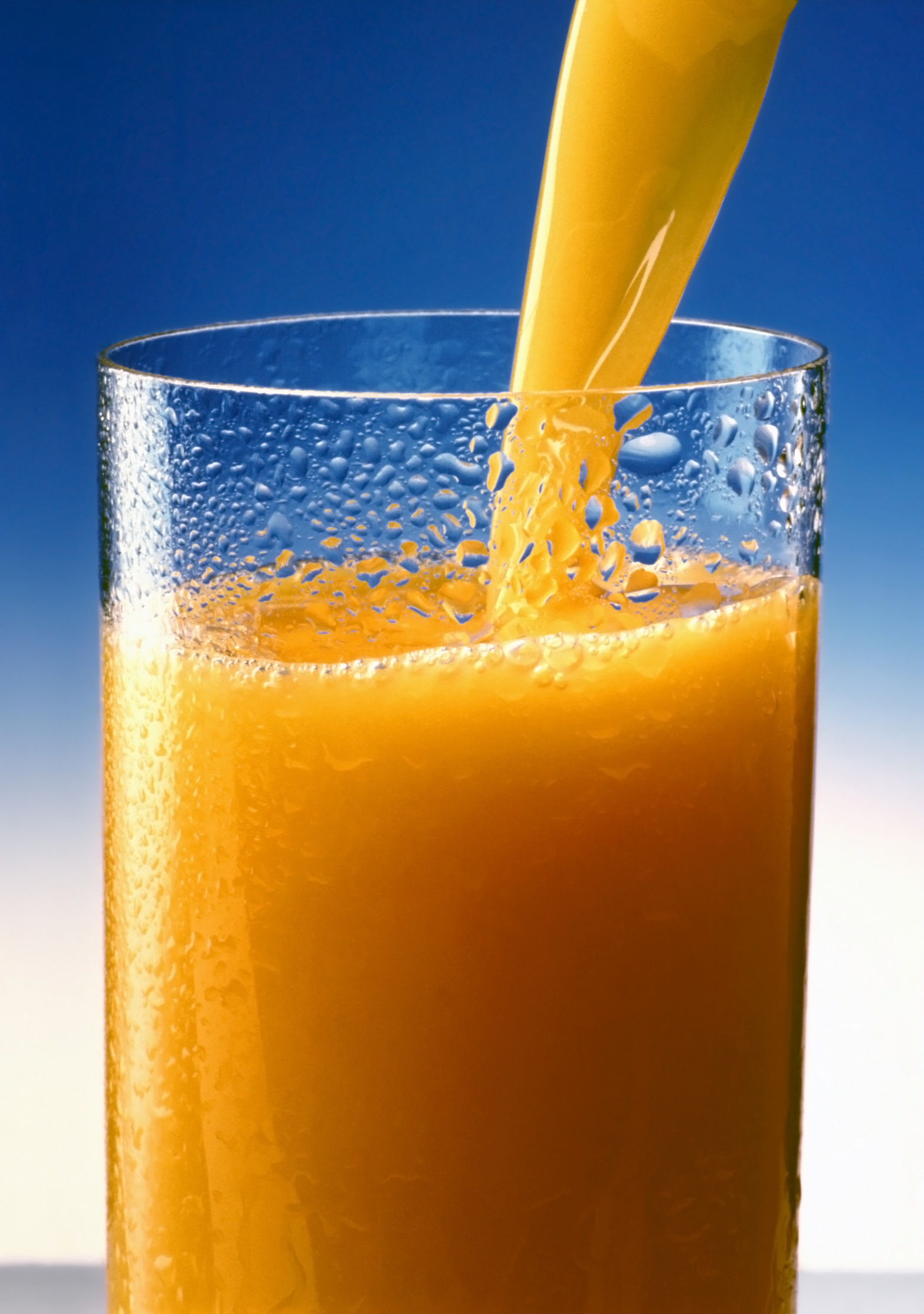 A glass of Orange juice.